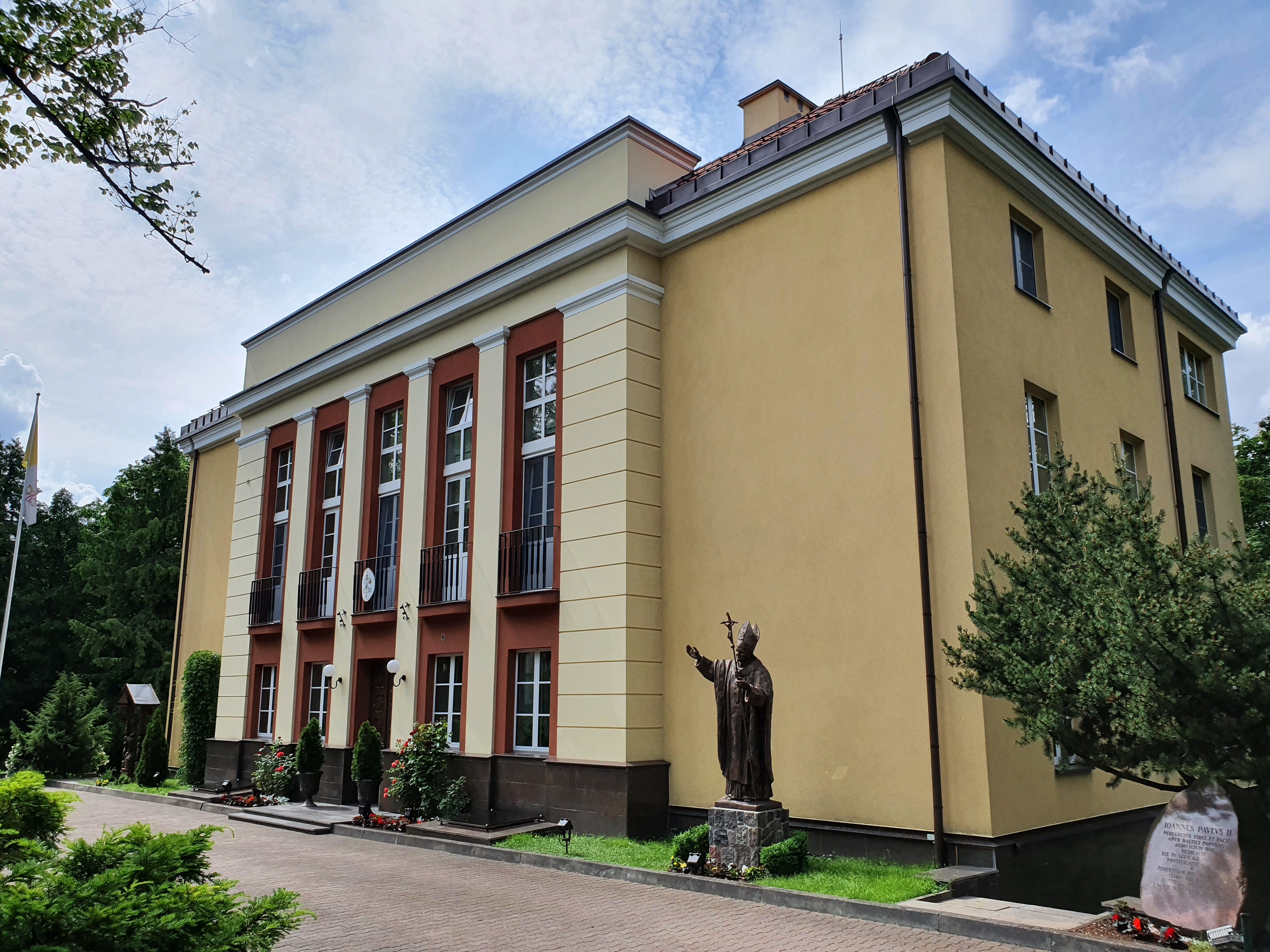 Apostolic Nunciature to Lithuania, located in Antakalnis eldership of Vilnius. Vilnius is the only city in the Baltic states with an Apostolic Nunciature.